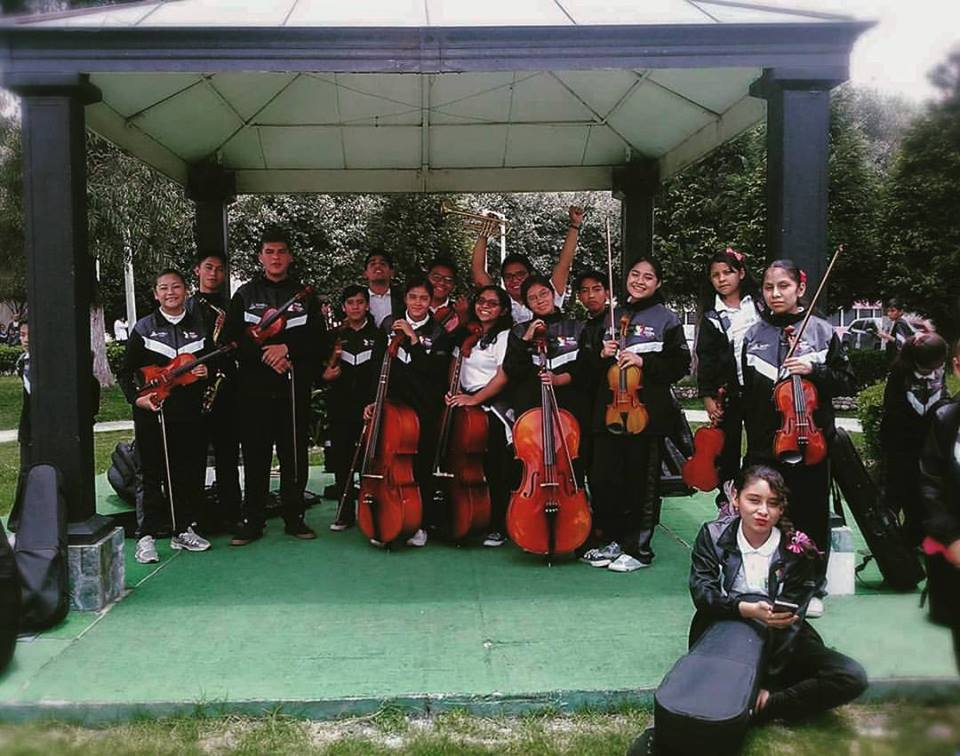 otiyj